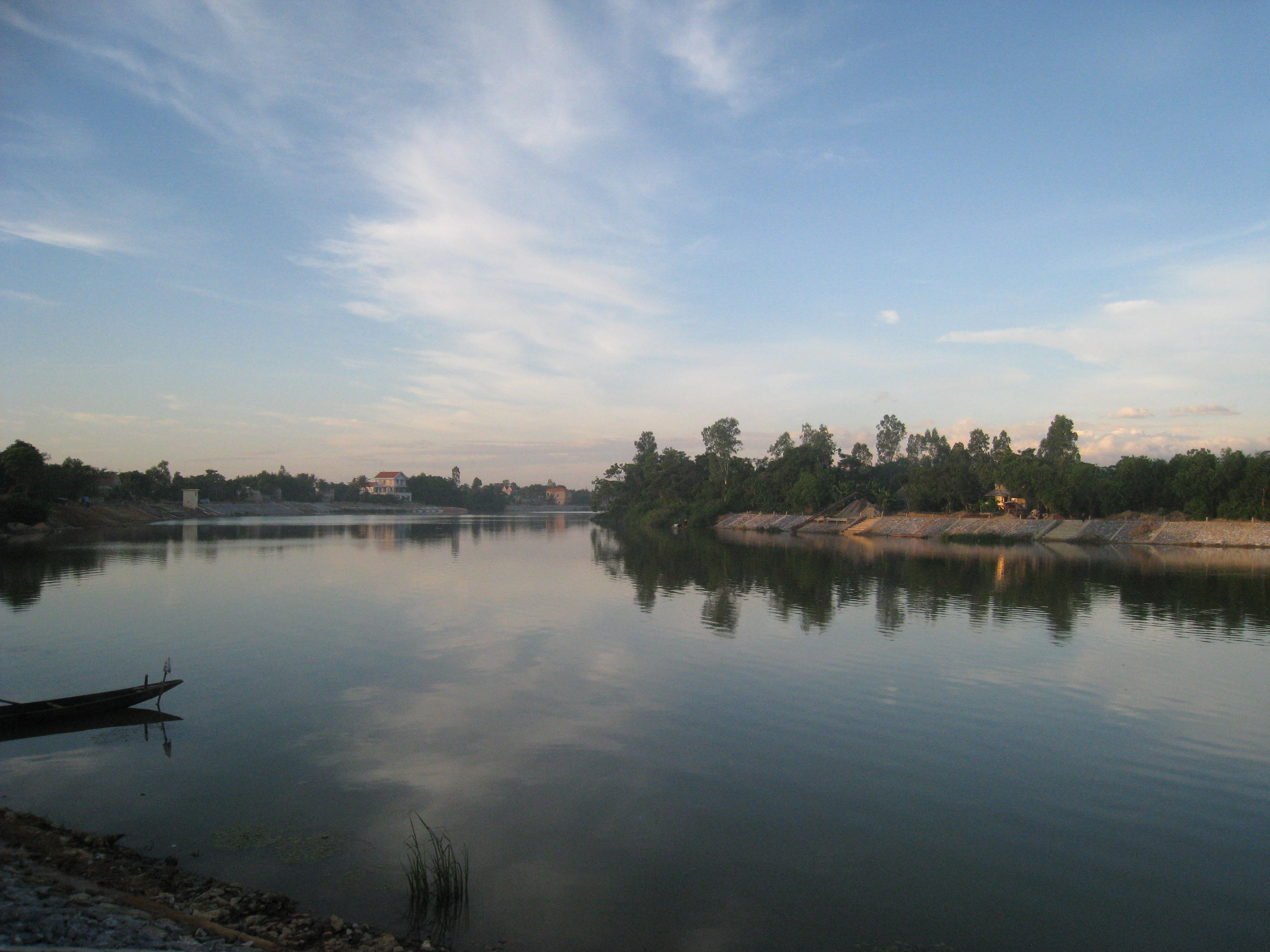 Kien Giang River, Le Thuy District, Quang Binh Province, Vietnam